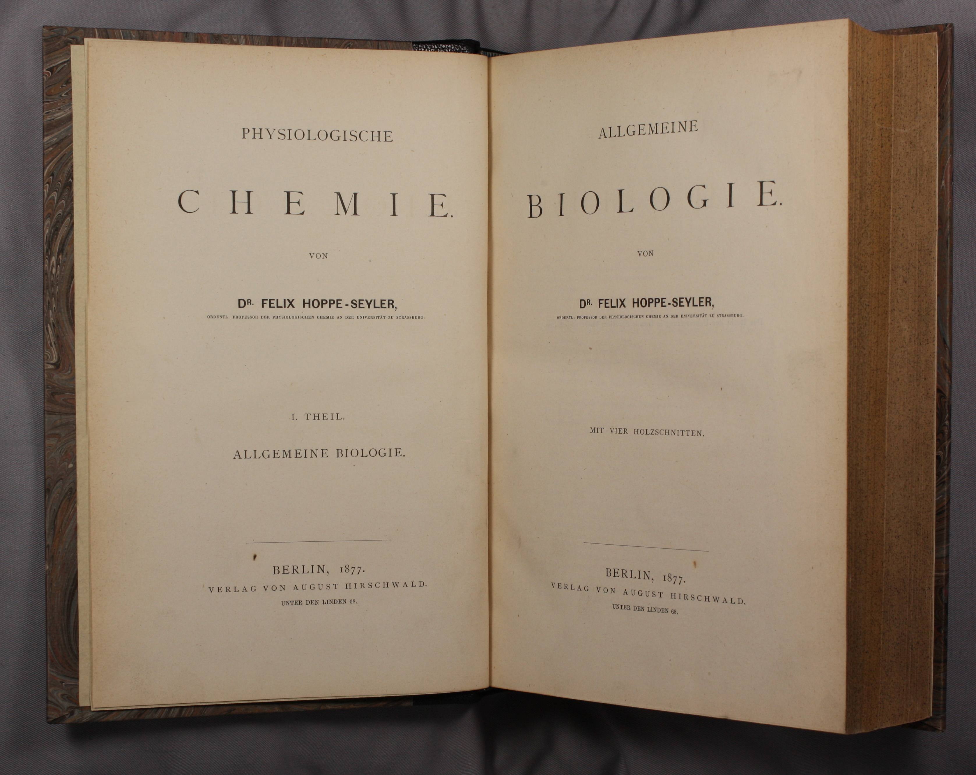 Title page from Physiologische Chemie / von Felix Hoppe-Seyler. Berlin : A. Hirschwald, 1877-1881. Felix Hoppe-Seyler, who was both a physiologist and chemist, became the principal founder of biochemistry. His text Physiological Chemistry became the standard text for this new branch of applied chemistry. He was a major influence in introducing physiological chemistry to the medical community.